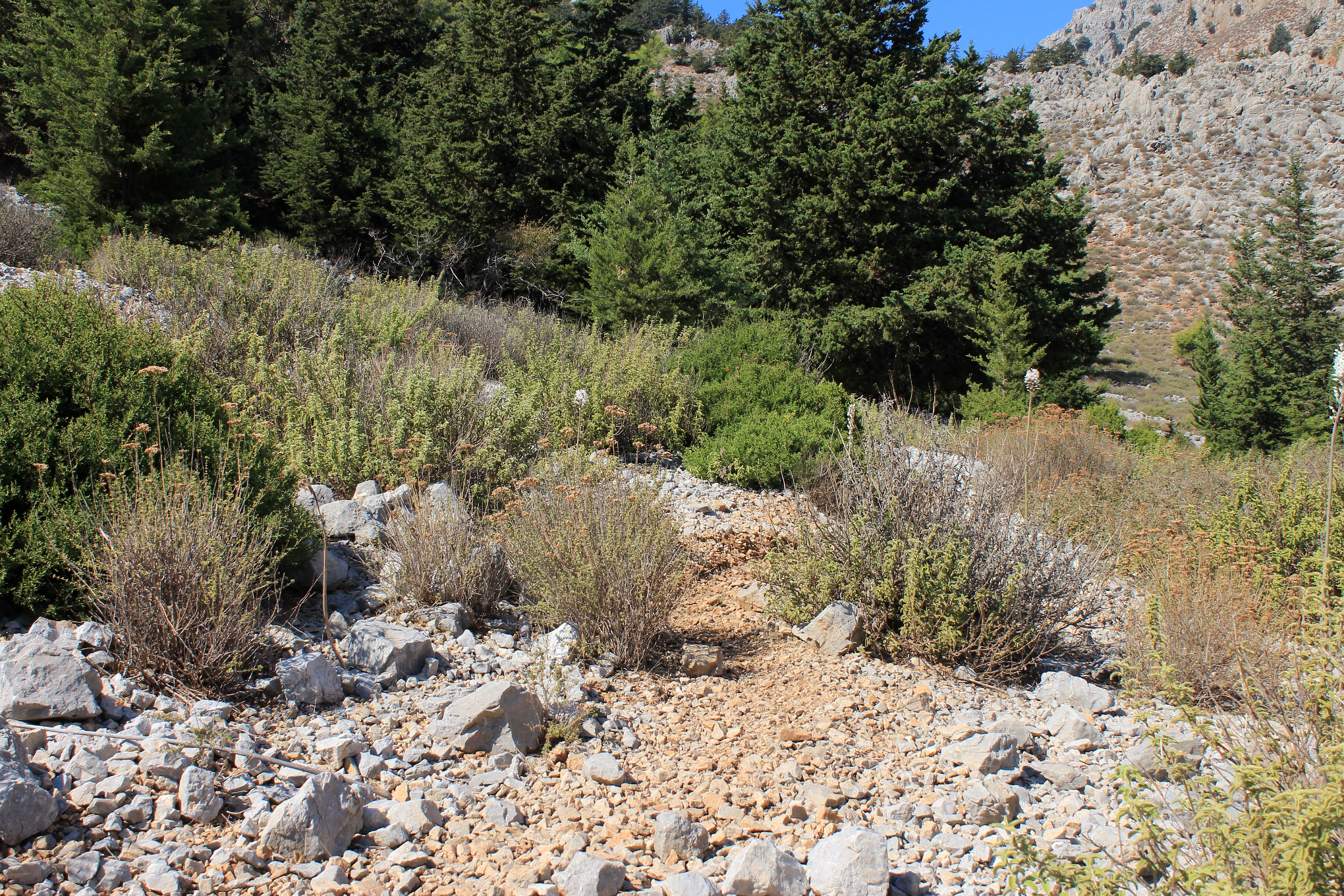 The valley behind Nanou beach, Symi, has a west-easterly direction. The picture is looking west, so the shadowed, southern flank of the valley is on the left. Loosing less water means better chances of survival, so here one may find Junipers, Pines and Olive trees here. This maquis is slowly turning into a secondary woodland.